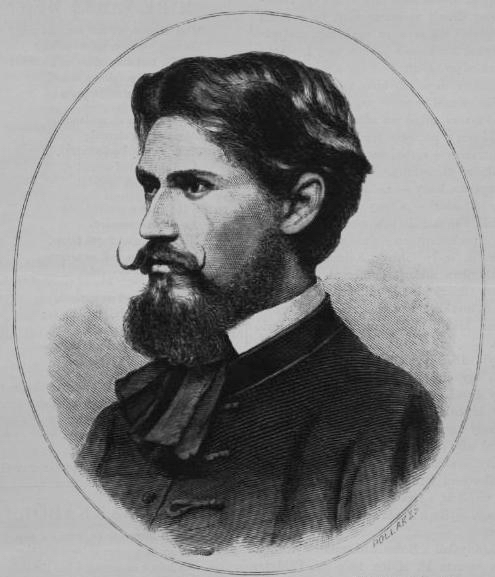 Portrait of Dezső Prónay